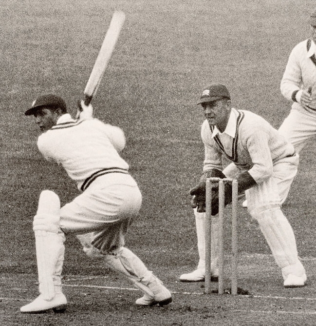 Amir Elahi of India on the attack during the first innings of the touring match against Middlesex at Lord's cricket ground, 23rd May 1936. The Middlesex wicketkeeper is Fred Price, and Patsy Hendren is fielding at first slip. Middlesex won by four wickets. Amir Elahi of India on the attack during the first innings of the touring match against Middlesex at Lord's cricket ground, 23rd May 1936. The Middlesex wicketkeeper is Fred Price, and Patsy Hendren is fielding at first slip.